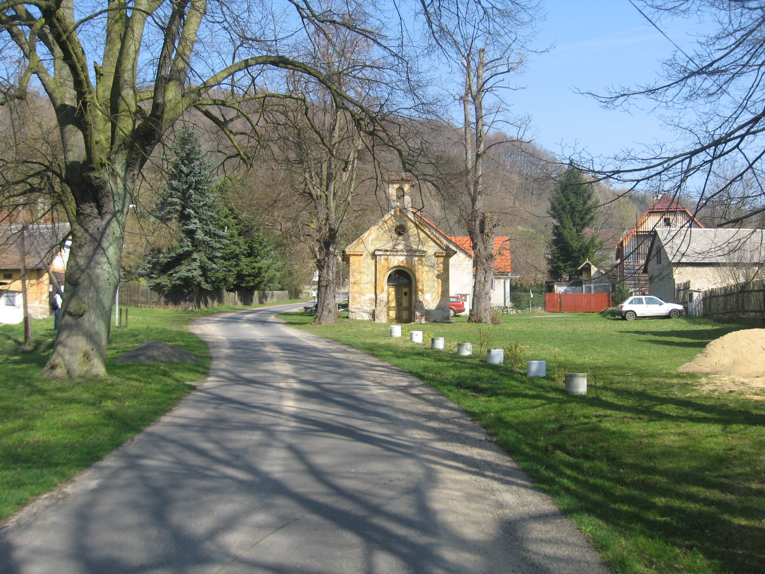 Village square in Lhota